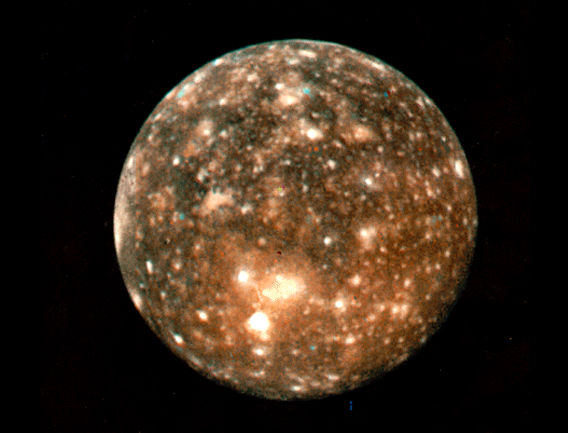 Voyager 2 image of Jupiter's moon Callisto. This image was taken from over 2 million km away as the spacecraft approached Jupiter. The bright spots peppering the surface are meteorite impact craters which have excavated through the dark surface and exposed the lighter material below. Callisto is 4,800 km in diameter.